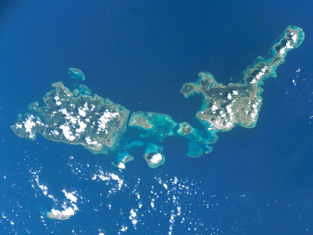 Yaeyama Islands, Ryukyu Islandsin Okinawa, Japan